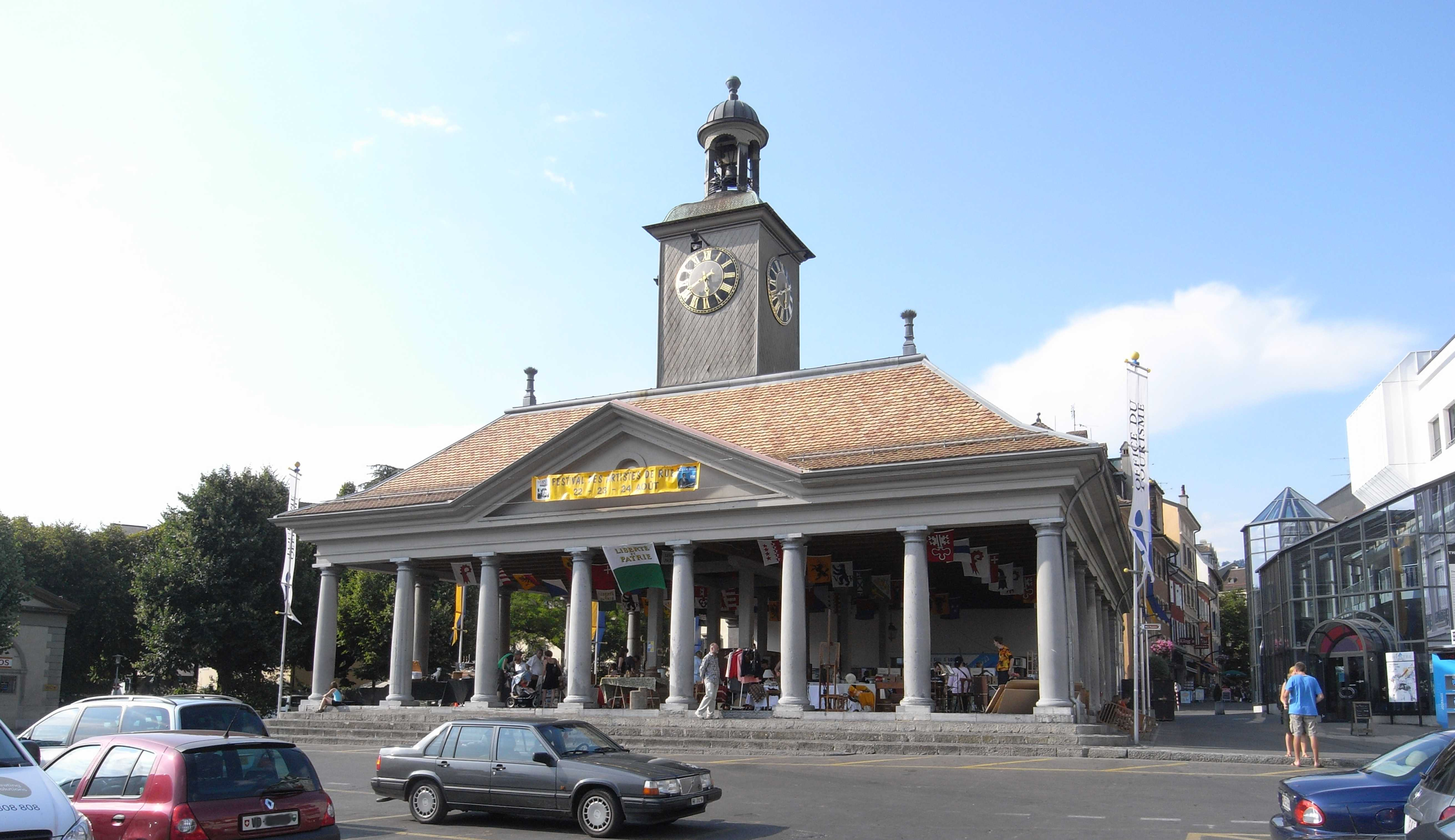 Vevey, building Grenette (Canton Vaud, Switzerland)